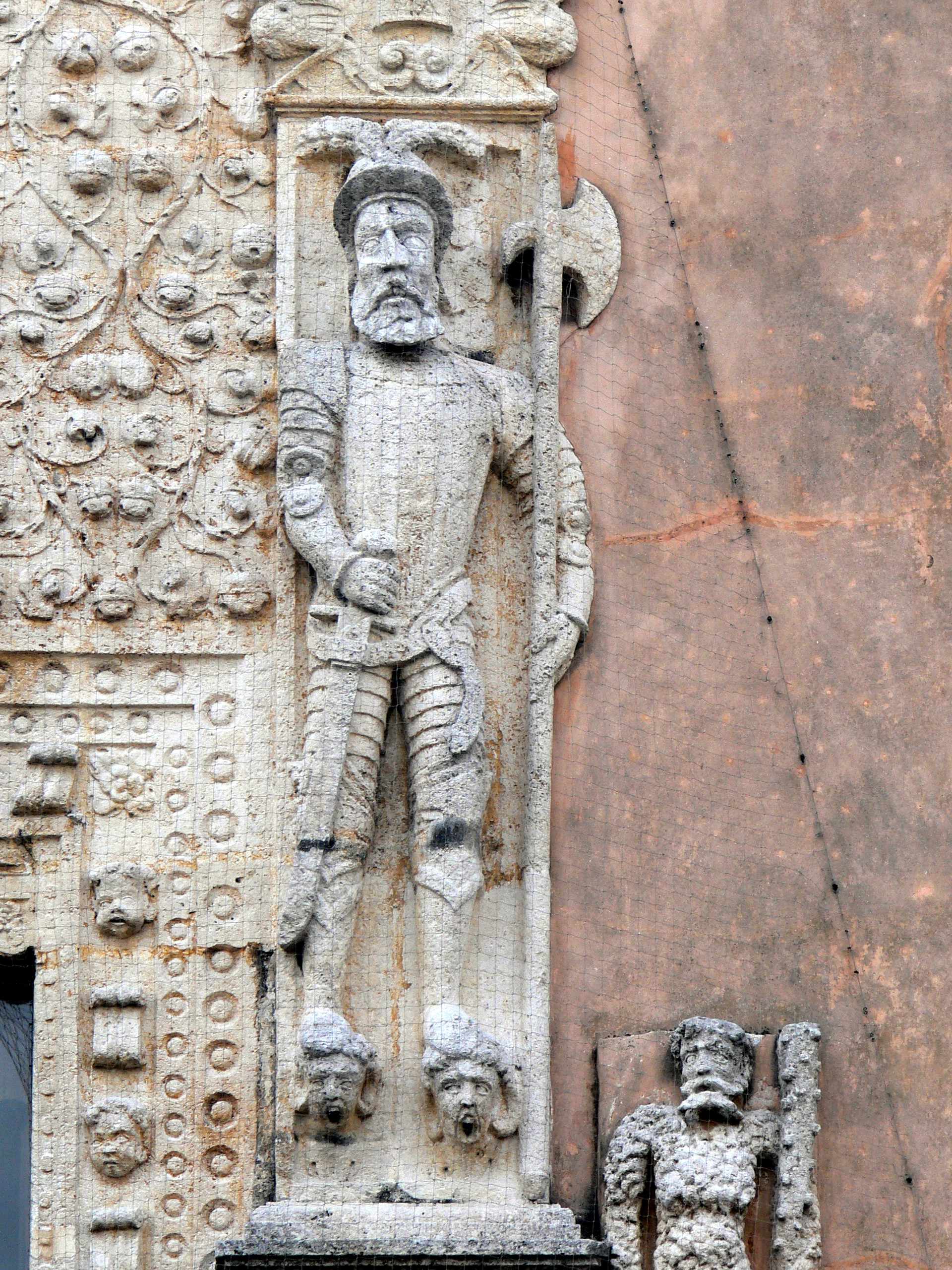 Merida ( Yucatan ). Casa de Montejo ( 1549 ): Relief of a conquistador with helebard, standing on top of heads of vanquished enemies ( Mayas? )